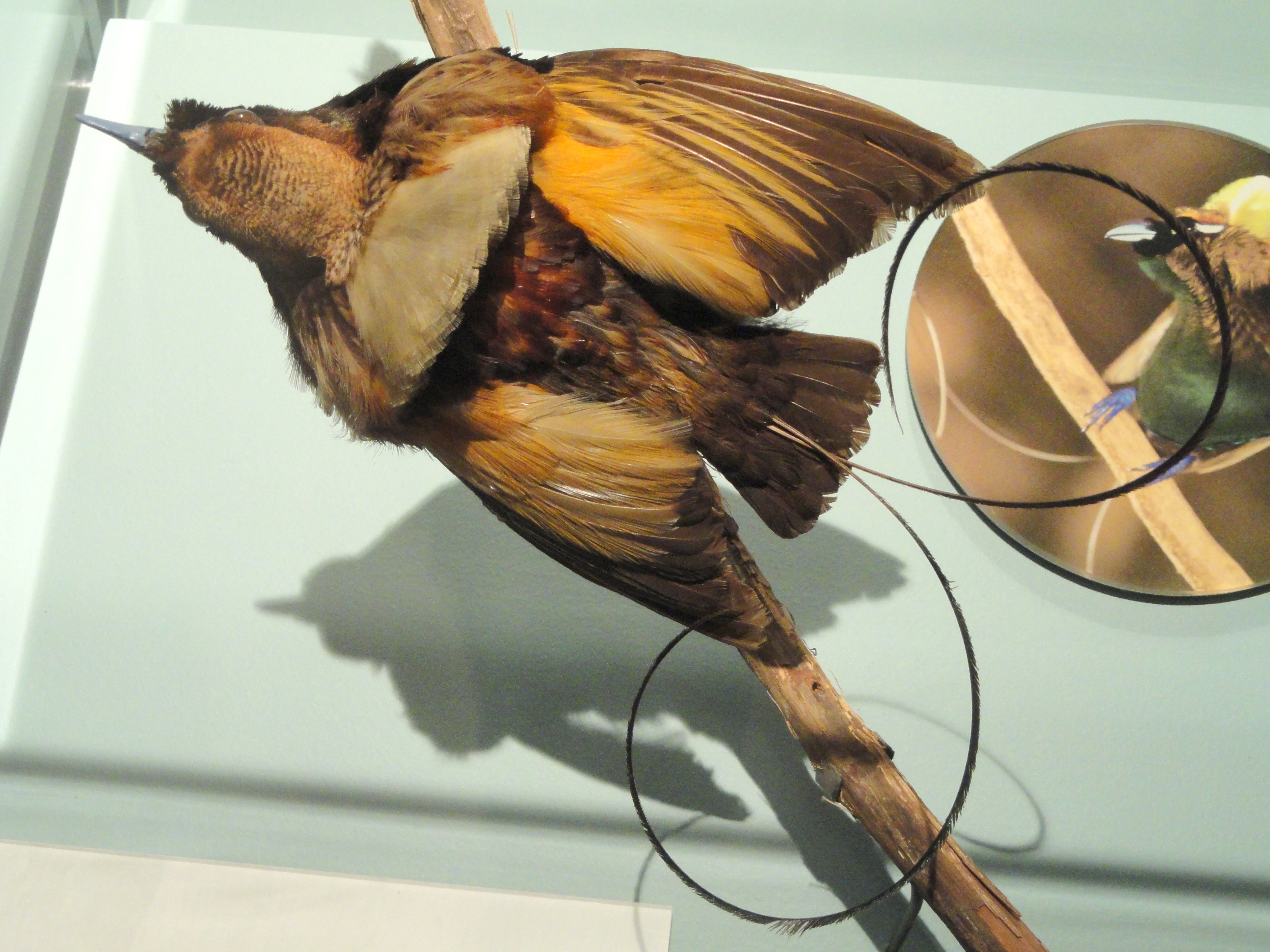 Exhibit in National Geographic Museum, 1145 17th Street, NW, Washington, DC, USA.